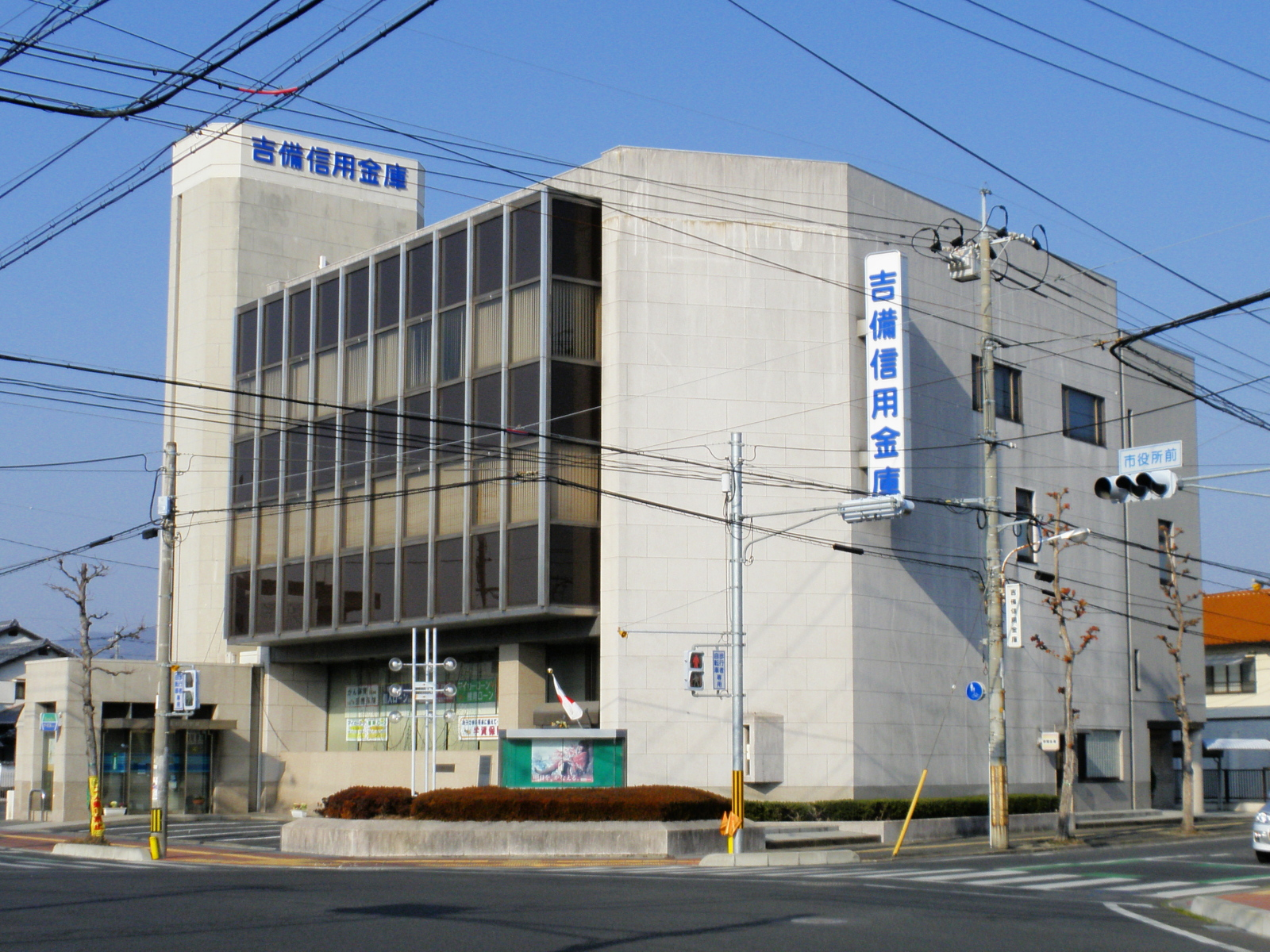 Kibi Shinkin Bank head store